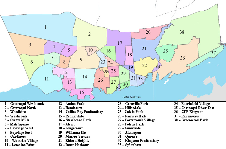 Map showing the official neighbourhood boundaries of the City of Kingston, Ontario